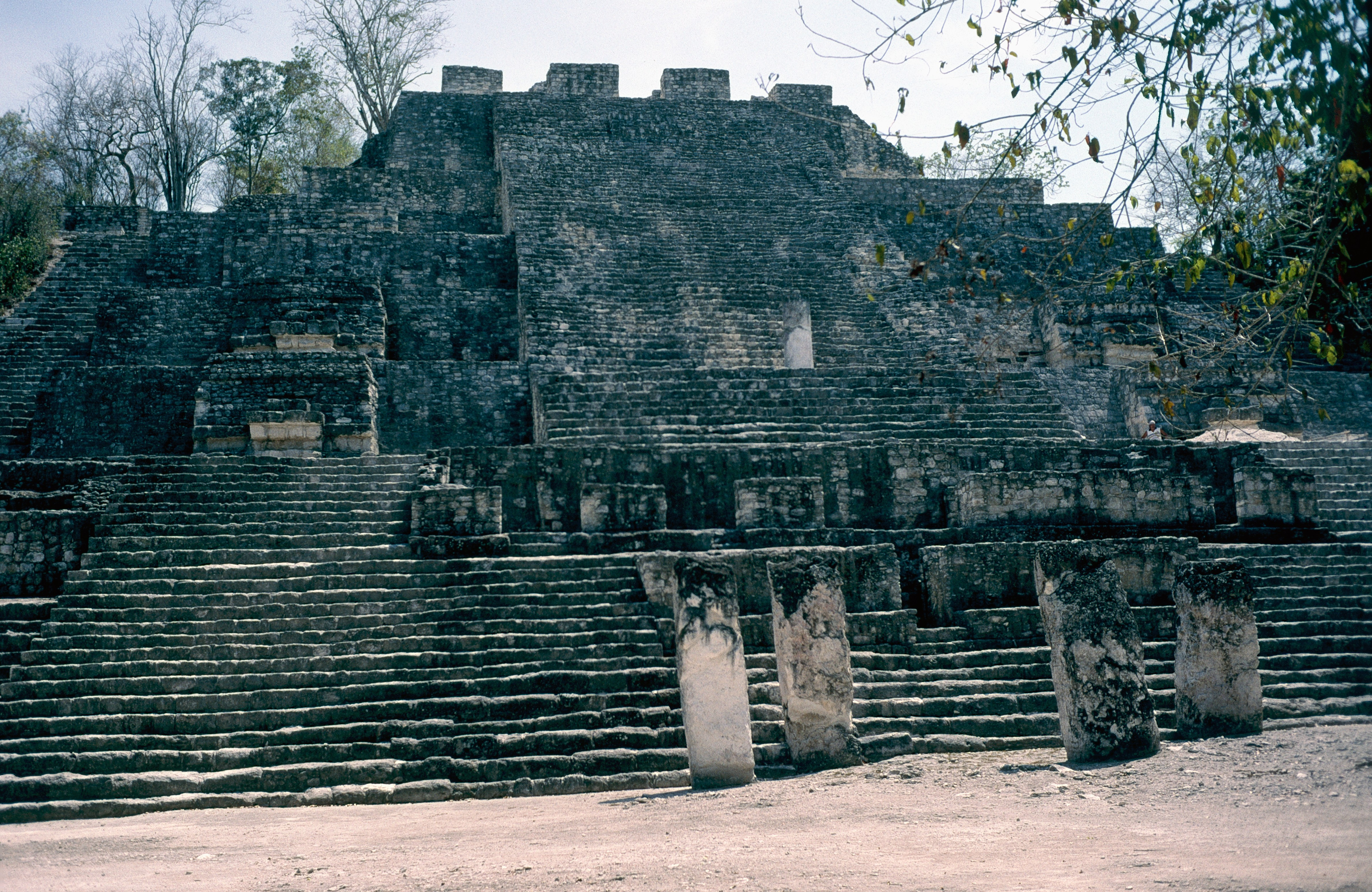 Calakmul, Campeche, Mexico. structure Ii